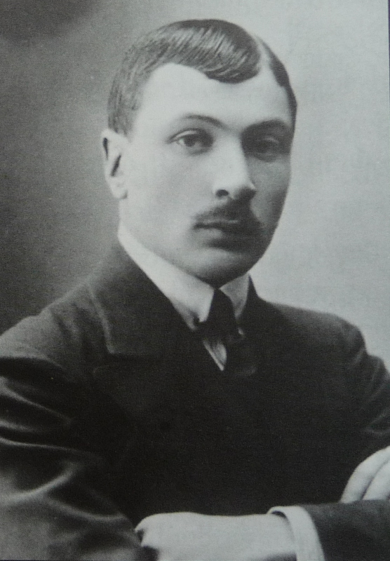 Georgian poet, historican and writer Ioseb Grishashvili